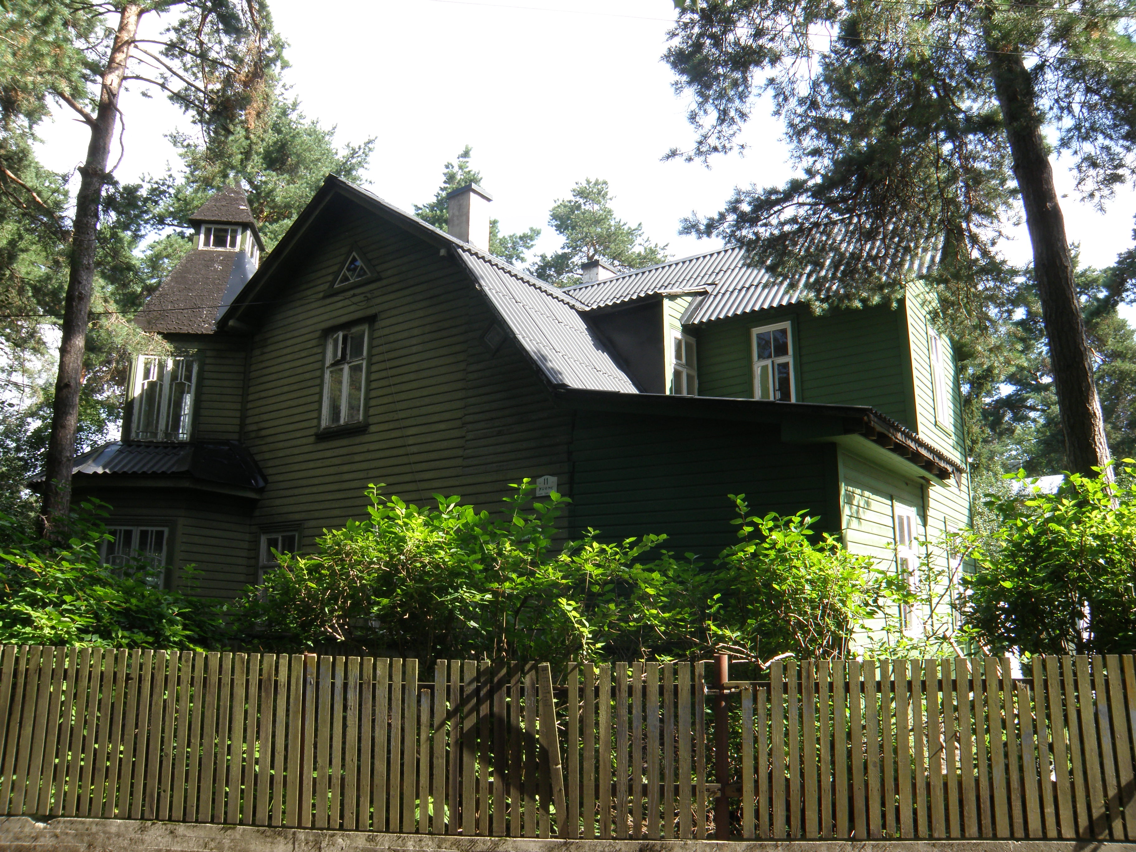 Nurme 11